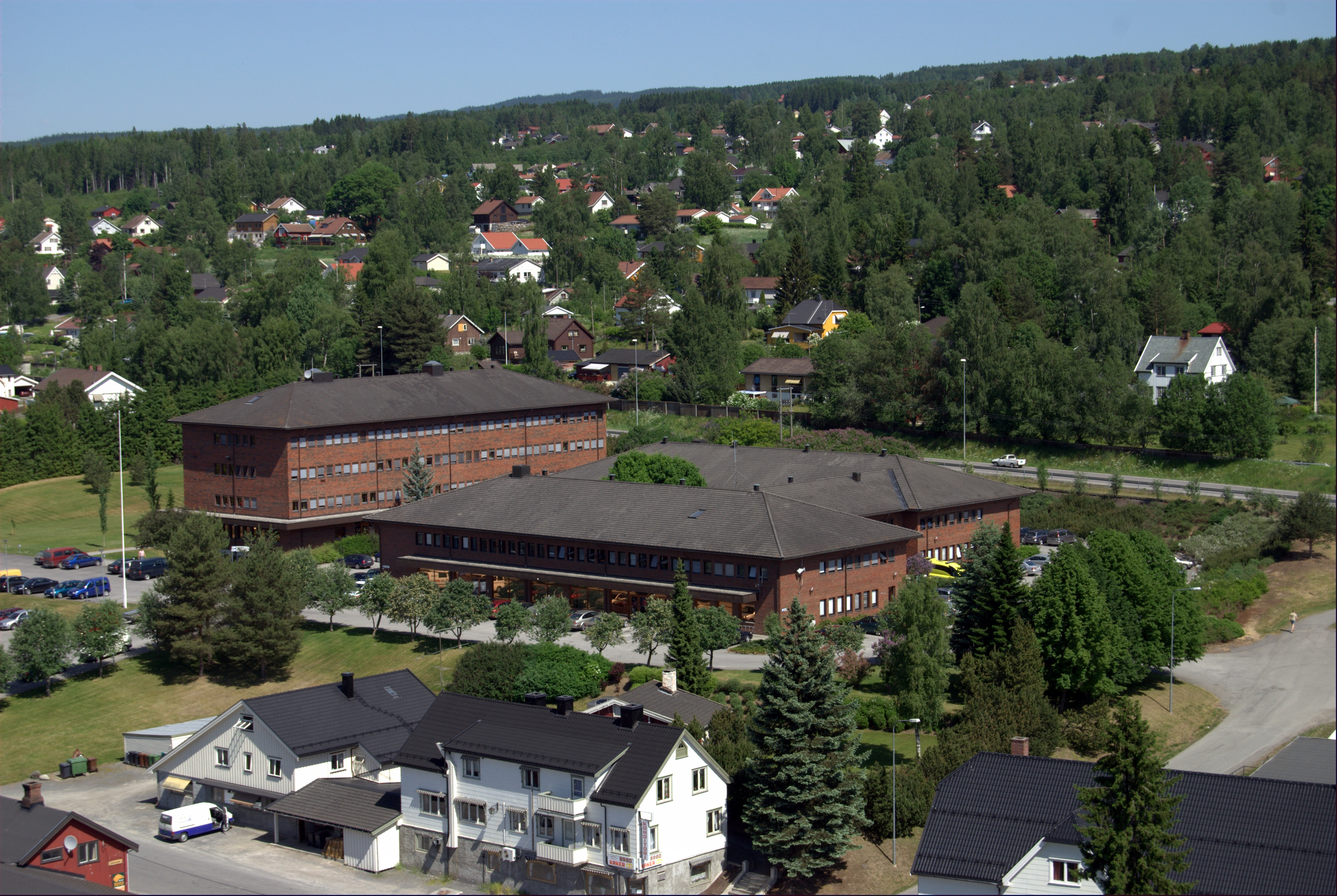 Gran town hall, Jaren, Gran, Norway